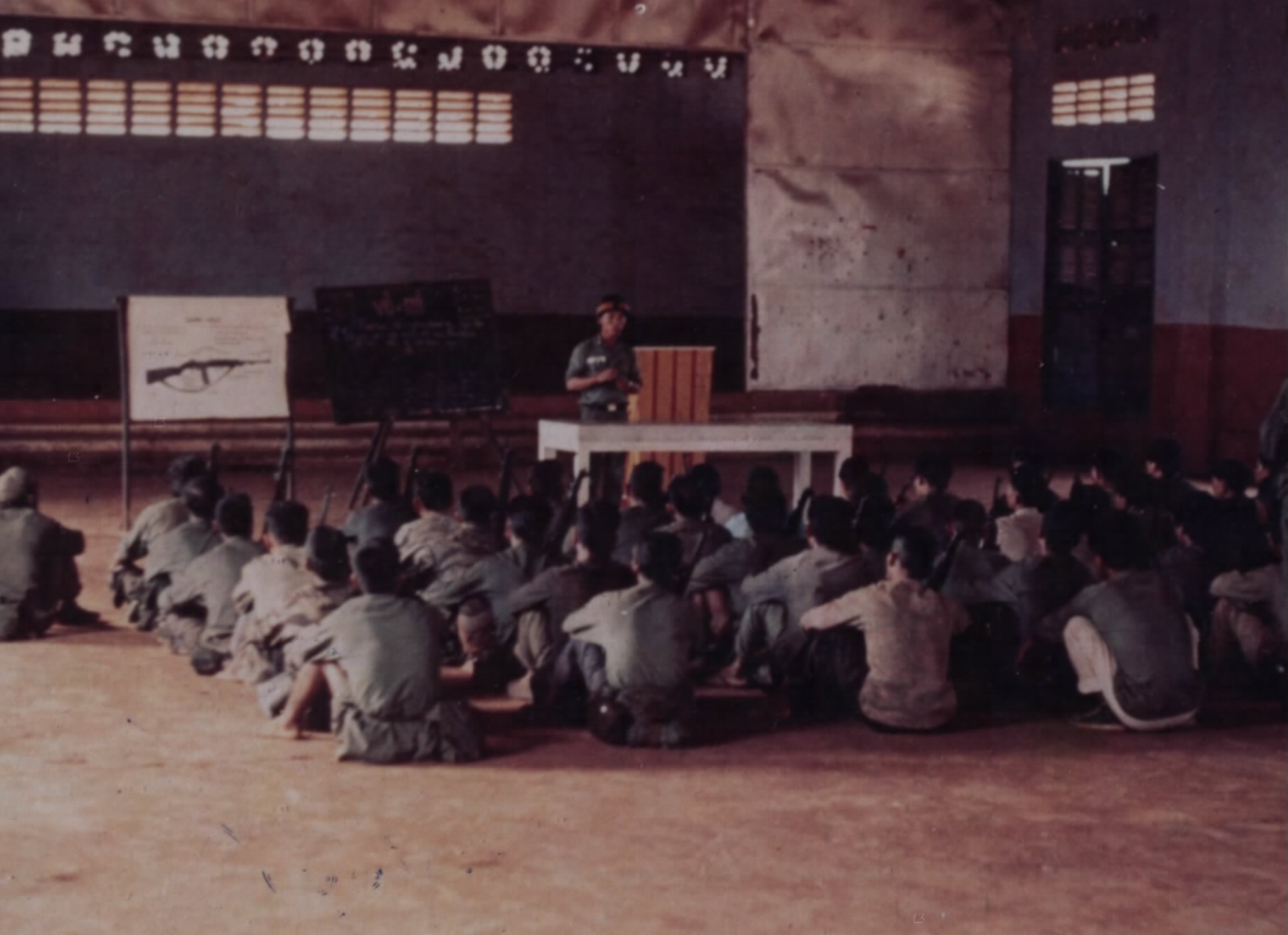 An instructor conducts a class on the use of the carbine at the Popular Forces Training Center, Pleiku